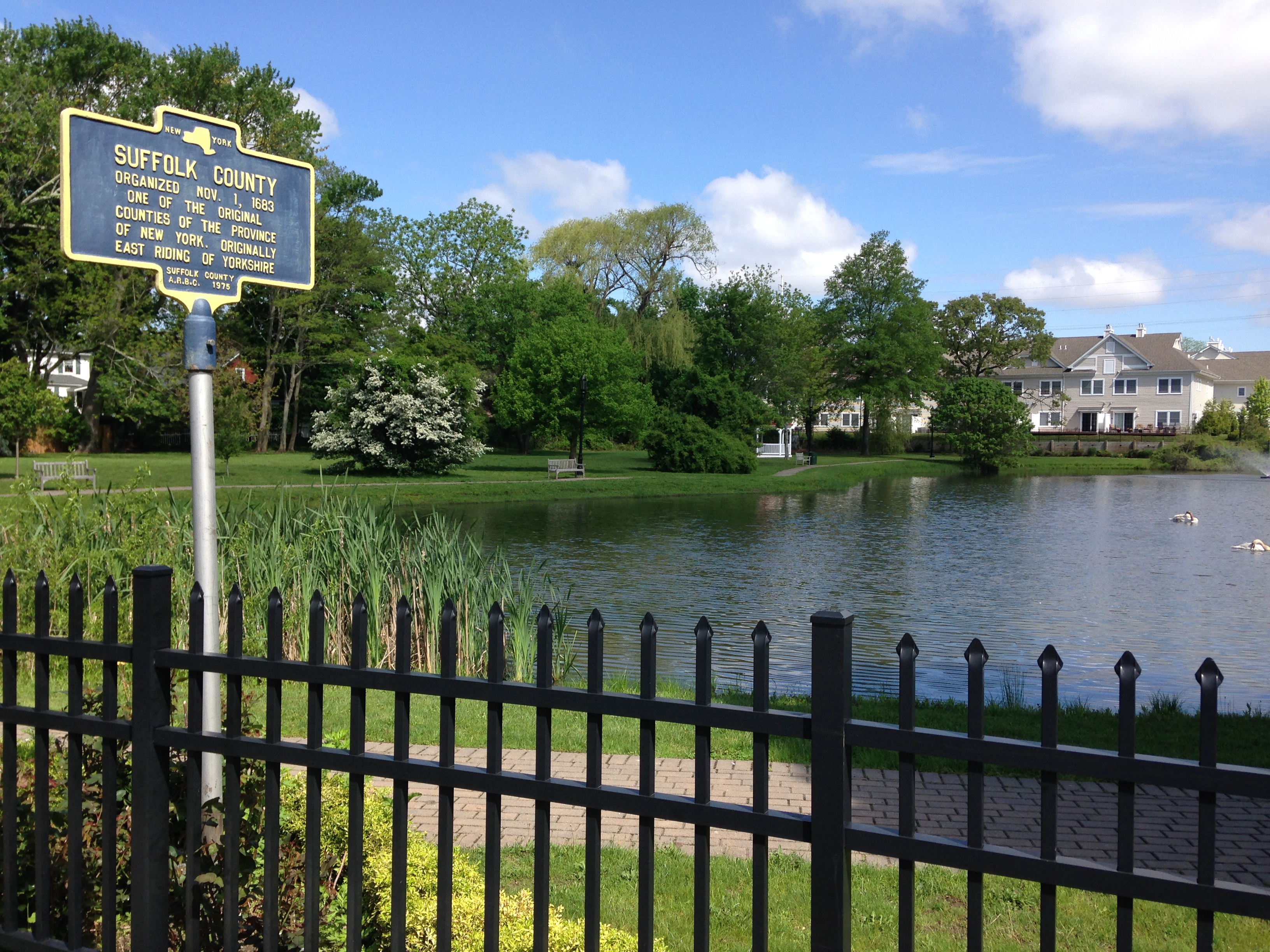 This sign for the establishment of Suffolk County is a Historical Marker, which records its place in history as one of twelve original counties of the Province of New York created in 1683. The sign stands along the side of the road at Peterkin Park on Oak Street in Amityville.